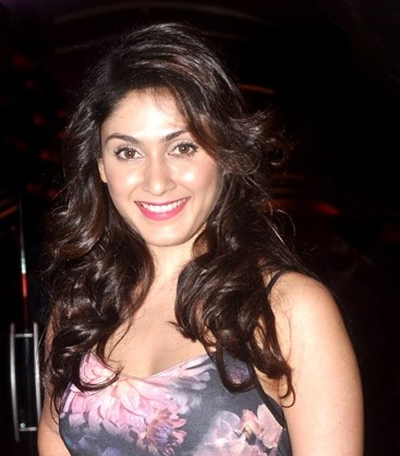 Manjari Fadnis at Sharafat Gayi Tel Lene's launch